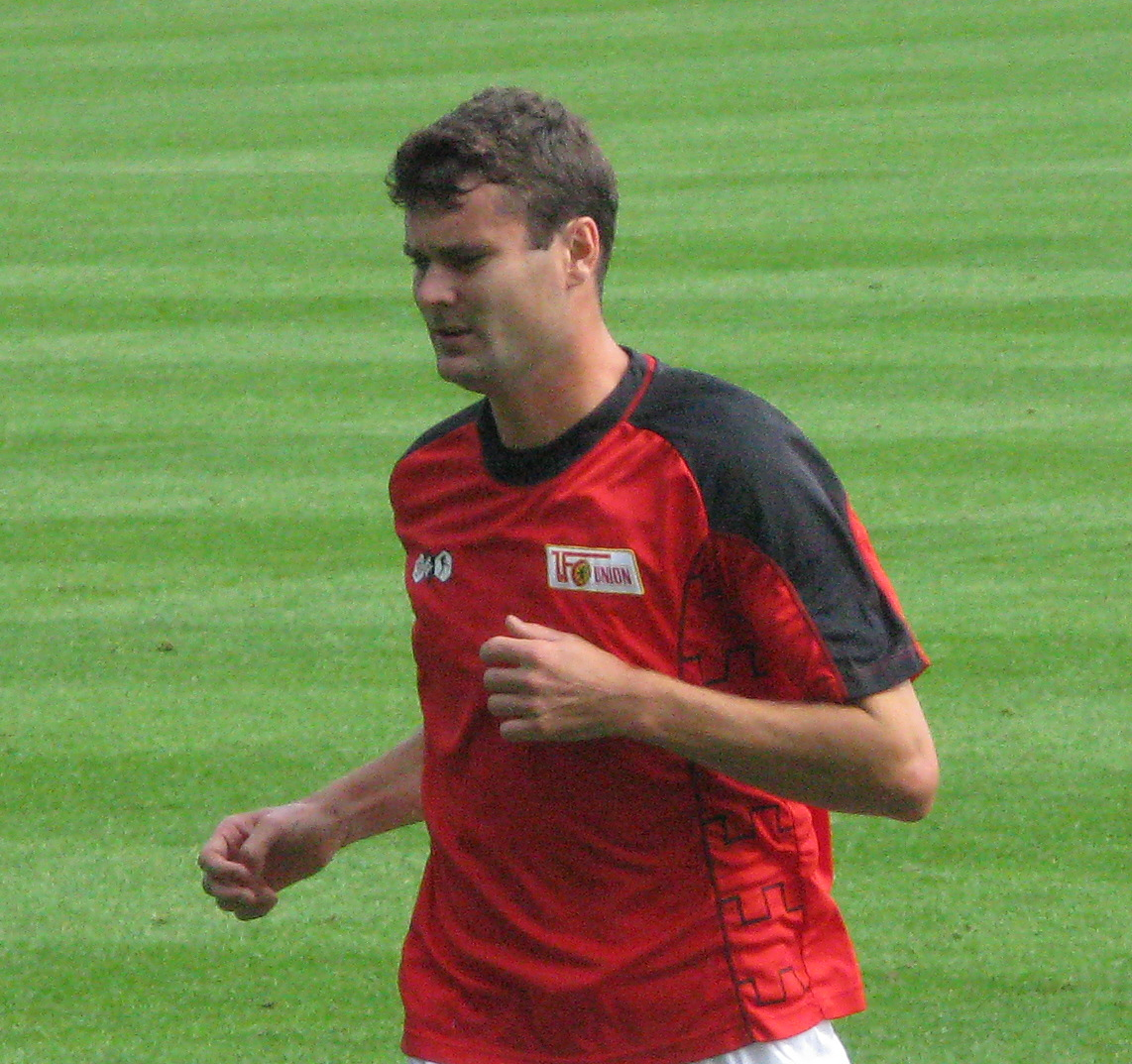 Daniel Göhlert is a german footballplayer. The defense player plays for the 1. FC Union Berlin.